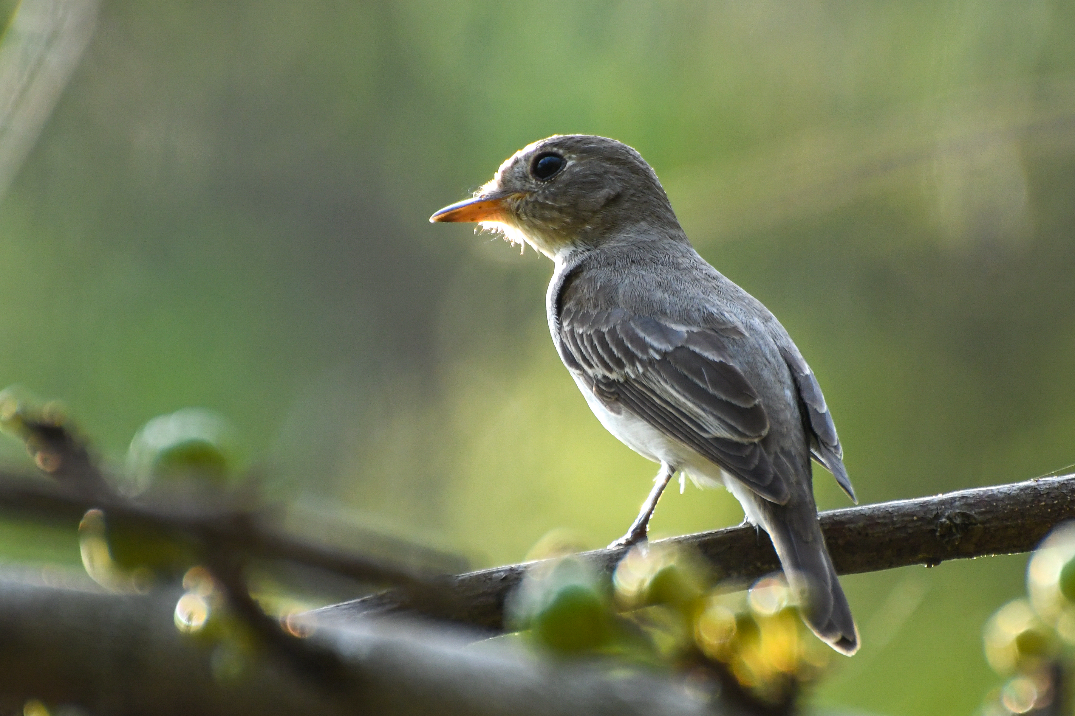 Asian brown Flycatcher